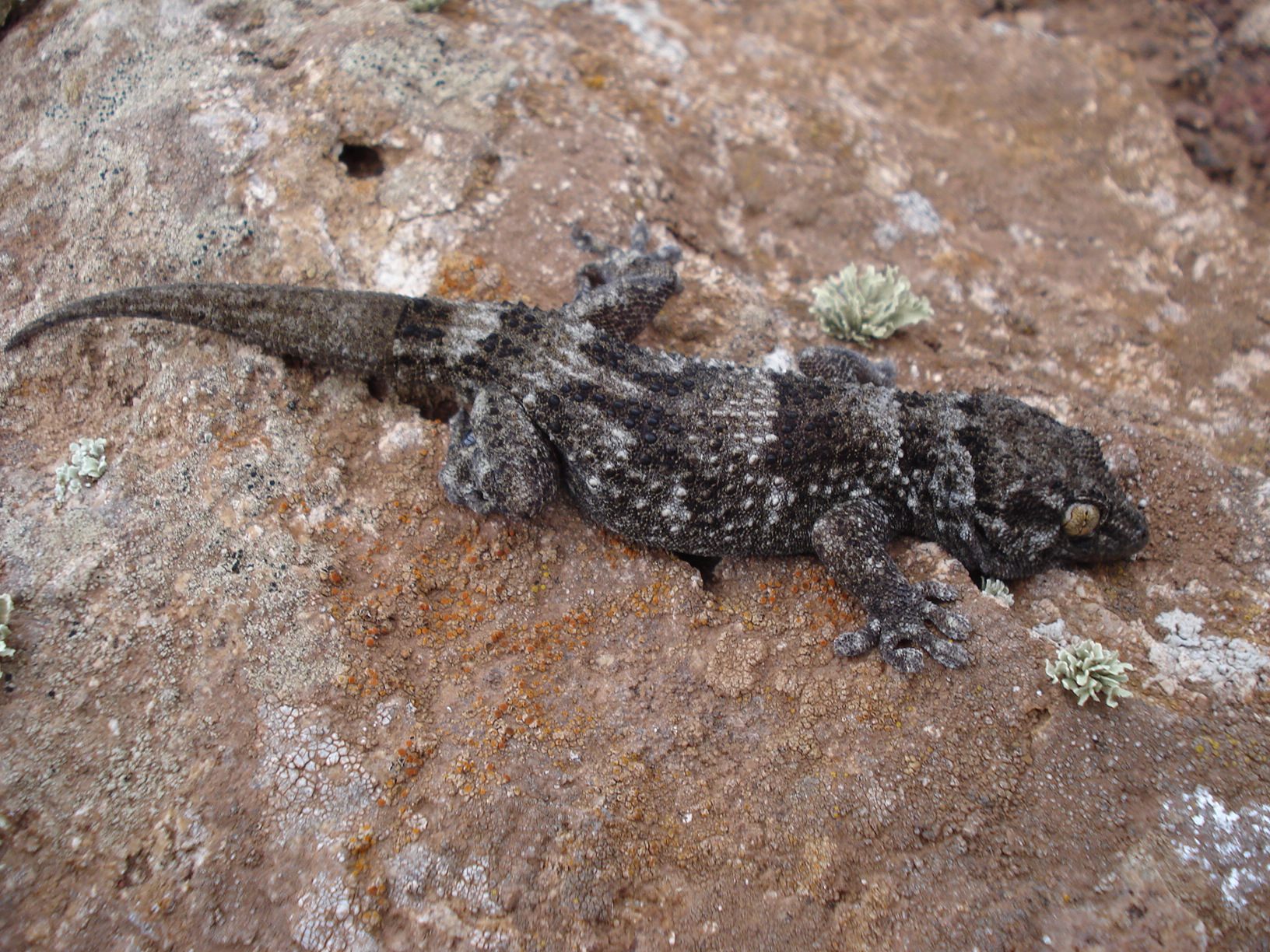 Selvages gecko (Tarentola bischoffi)